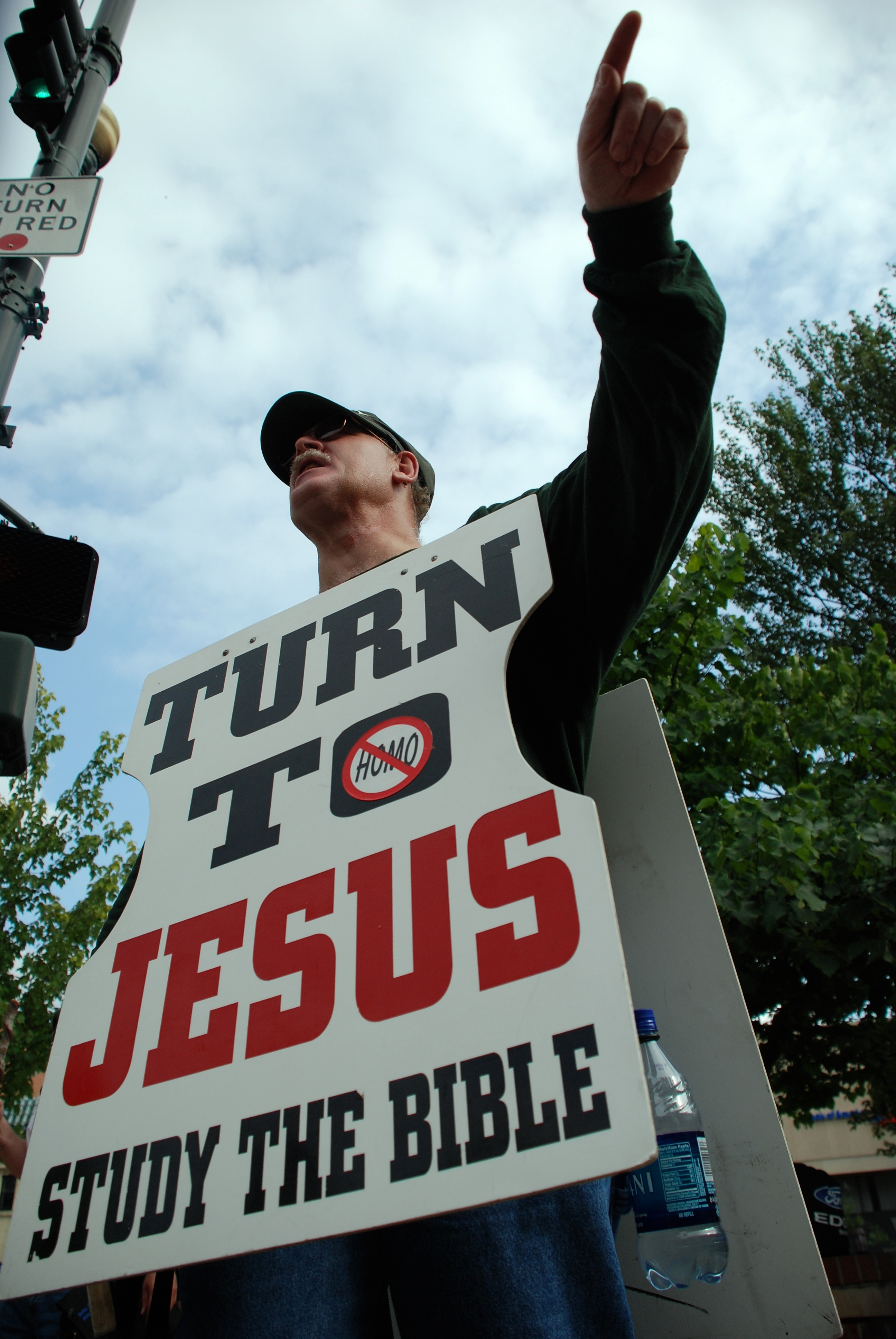 In the thick of the Bele Chere street festival, some demonstrators used the occasion to get their message out. It reads: "Turn to Jesus, read the bible"